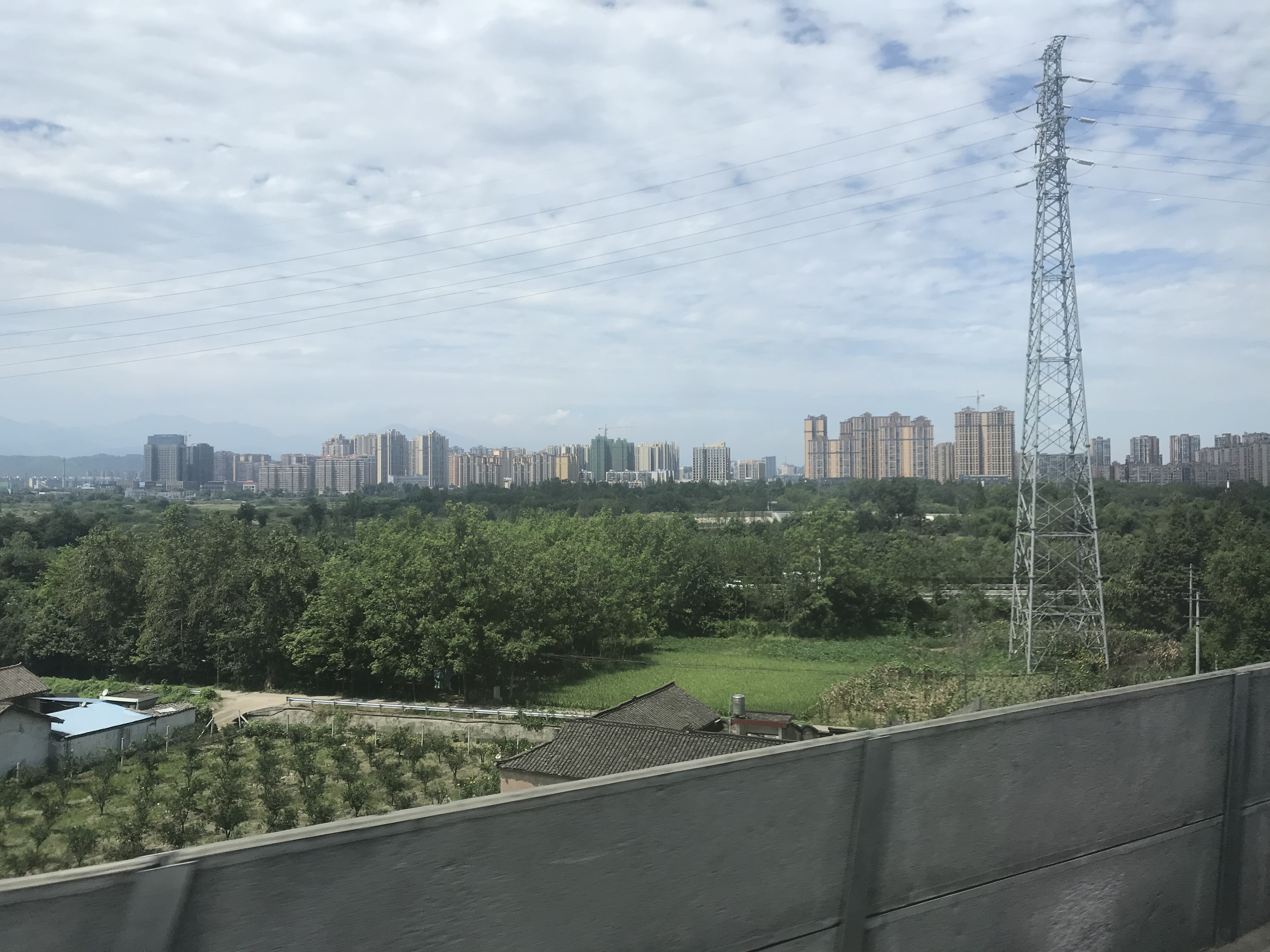 201908 Buildings in Dayi County